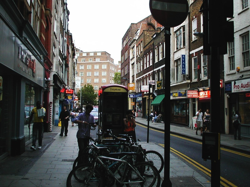 Denmark Street, London, 31 July 2007